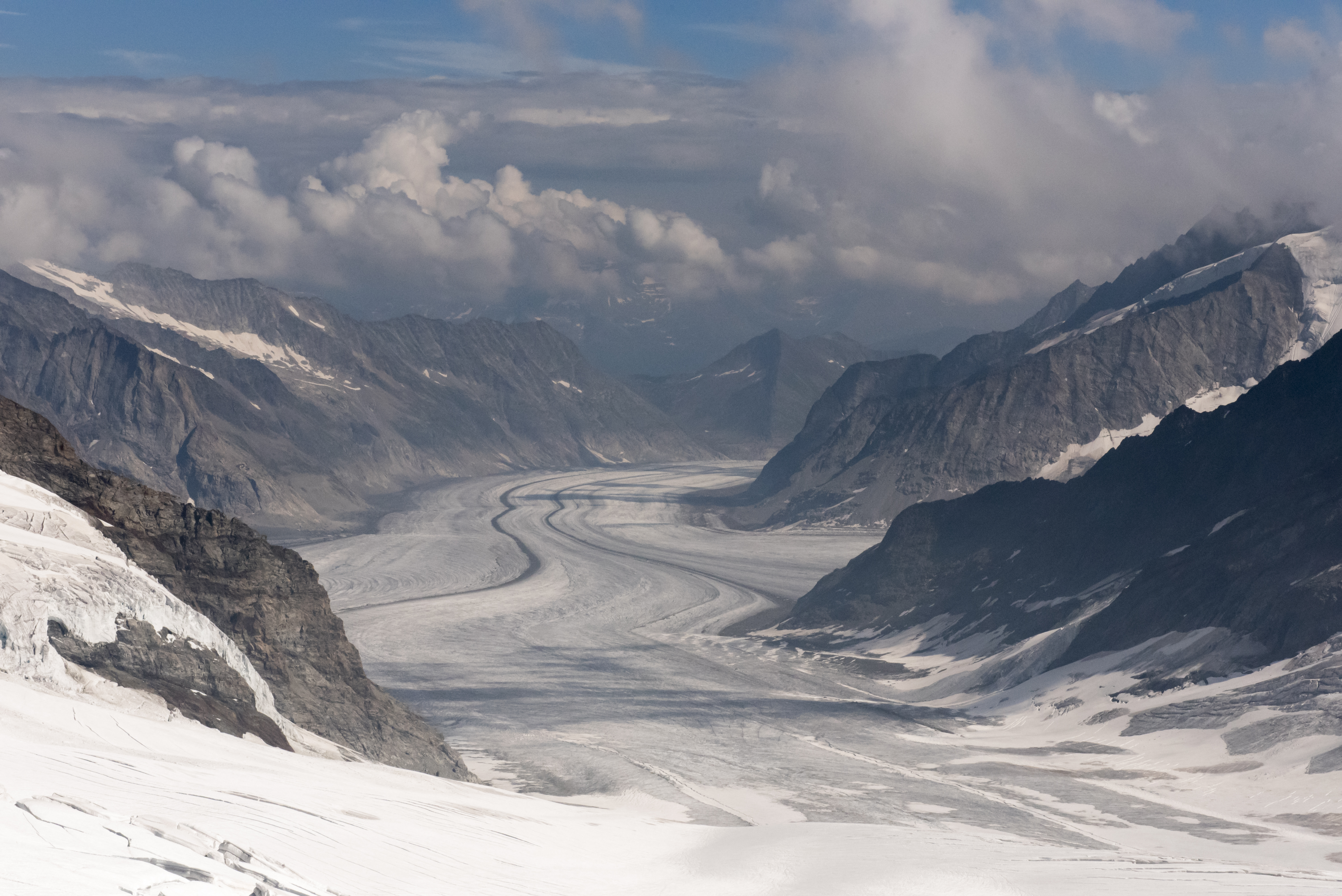 The Aletsch Glacier, viewed from the top of Jungfraufirn